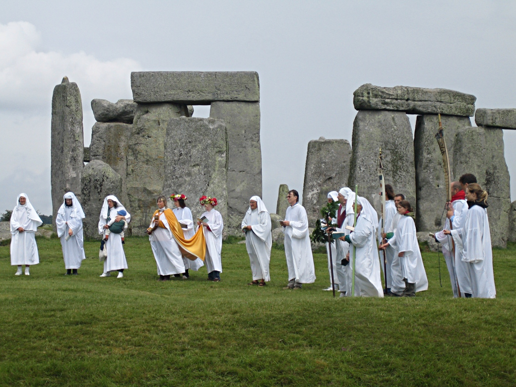 Druids celebrationg rituals at Stonehenge.